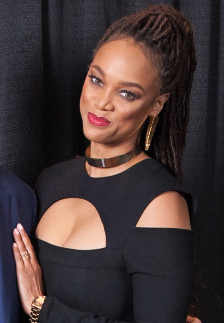 Oracle MME16 Conference